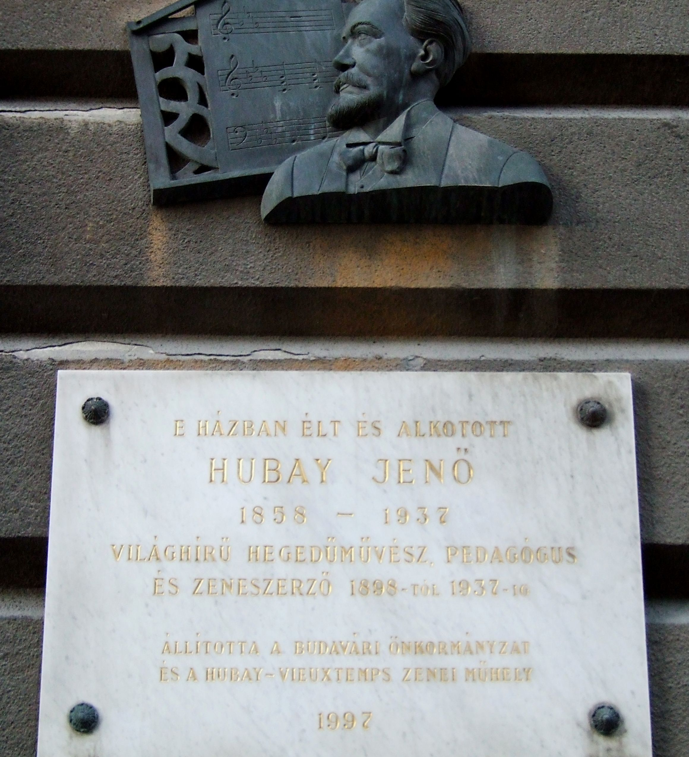 Jenő Hubay commemorative plaque with relief, Budapest District I, Fő Street No 21